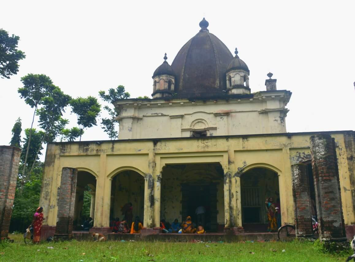 Joshoreshari Temple: Joshoreshari Temple was built during the later part of the region of king Laksman Sen in the 12th century. While cutting down the forest to establish capital in this area king Pratapadittya found the ruins of this temple and among them a statute of goddess Kali made of very costly kind of stone. Then the king reestablished this temple. It is learnt from the book conquest of the book Horizon by Kabiram that,King Laksman Sen also founded this temple along with another temple named "Chando Vairabi" Mondir to the northern side.